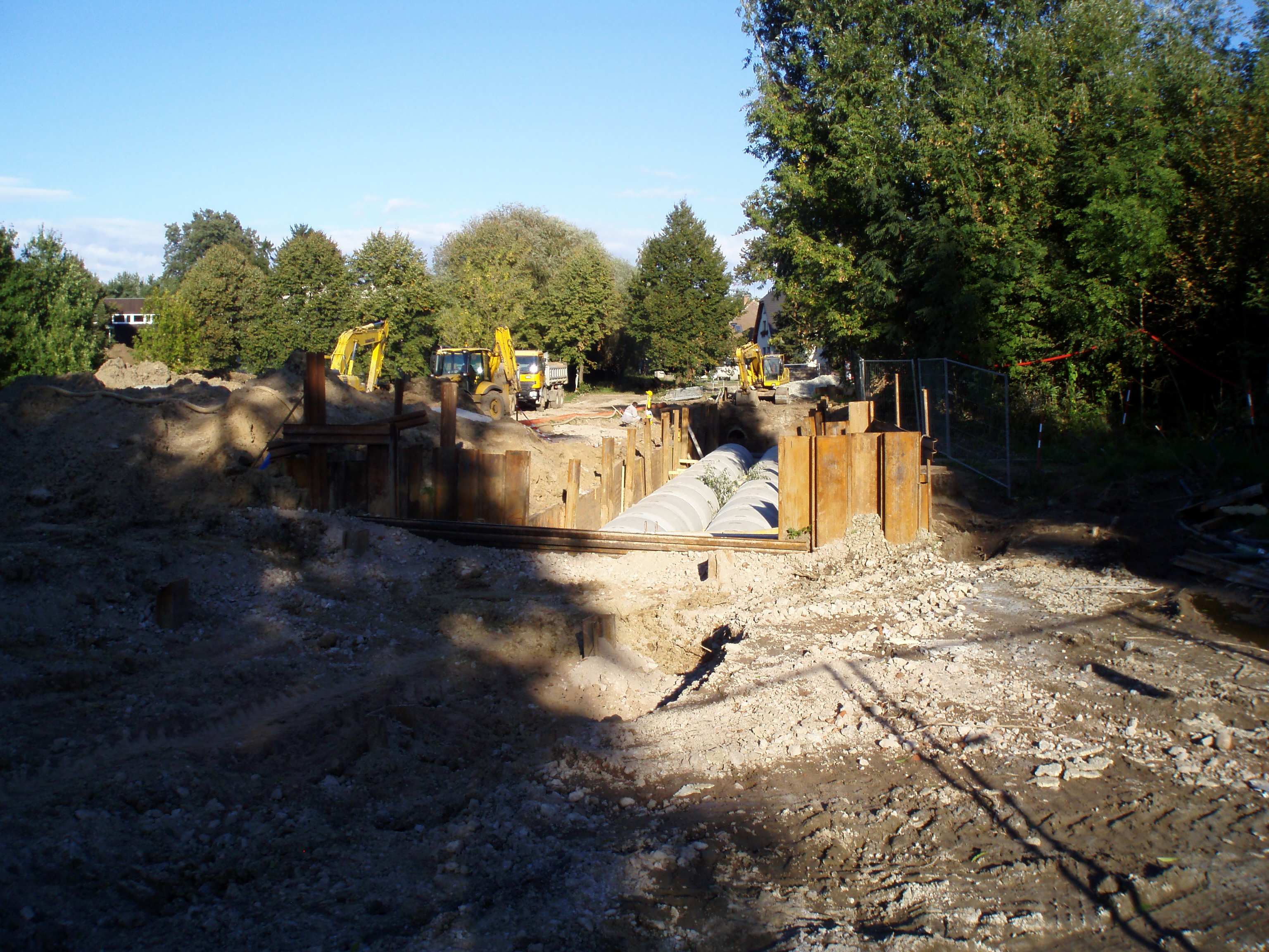 Construction of sewerage network in Hradec Králové (Czechia)